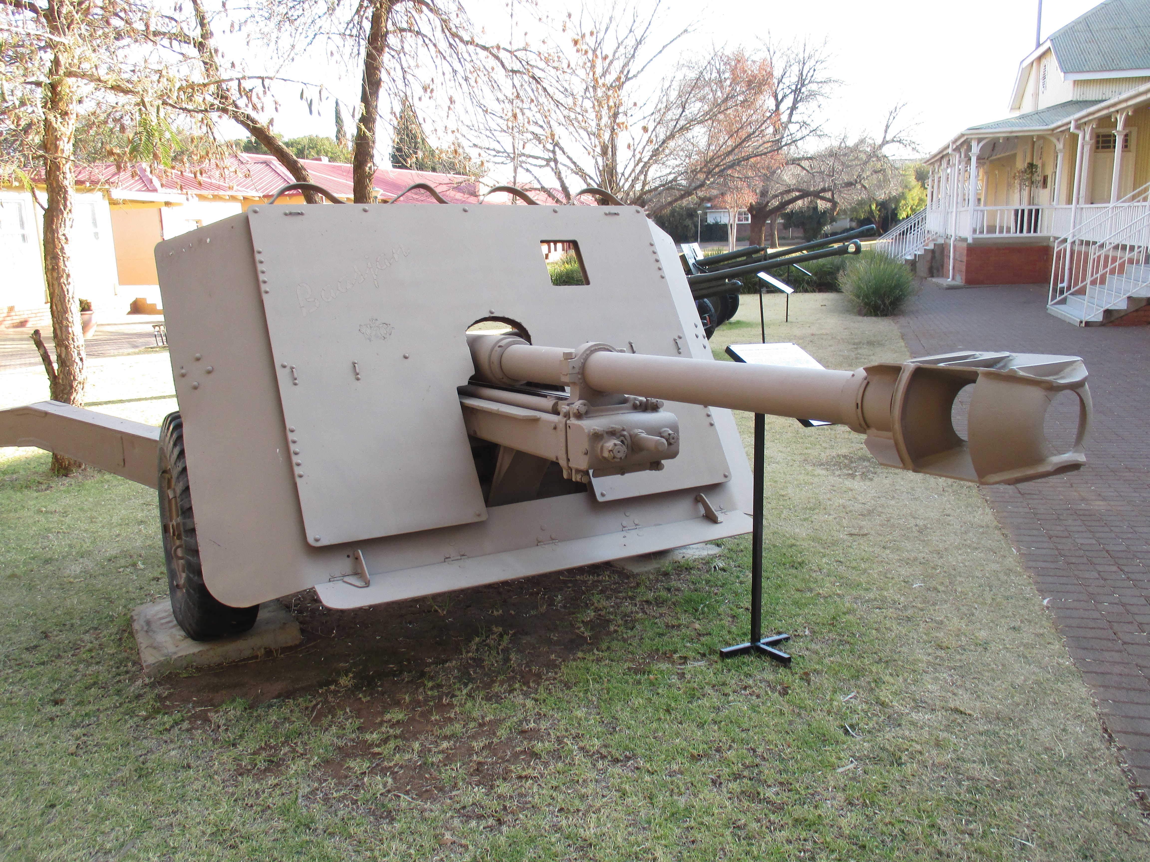 Description: Denel GT-2 90mm smoothbore cannon at 1 Tank Regiment, Tempe Base, Bloemfontein. 2014.